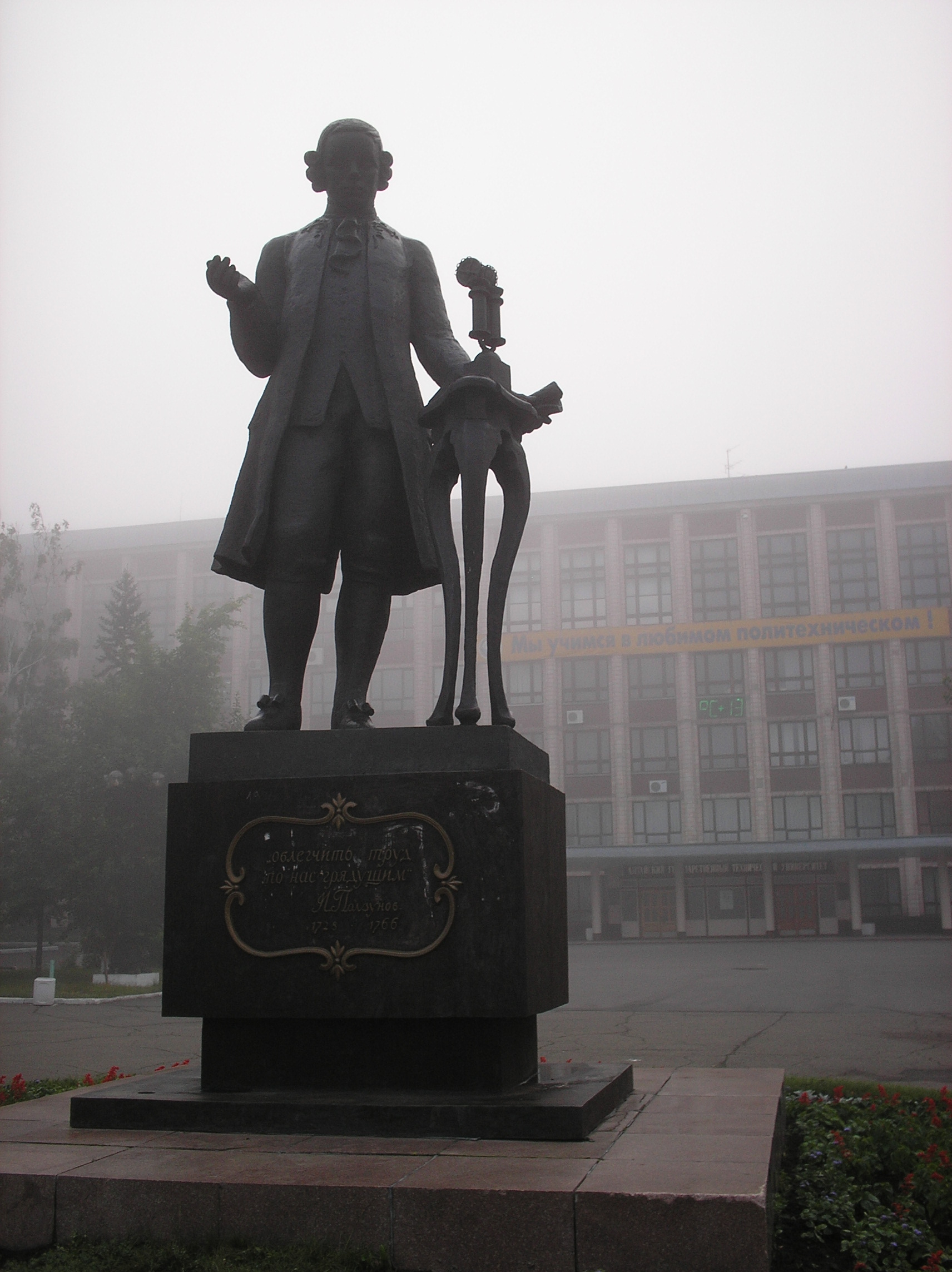 Monument to Ivan Polzunov in Barnaul in front of Altai State Technical University